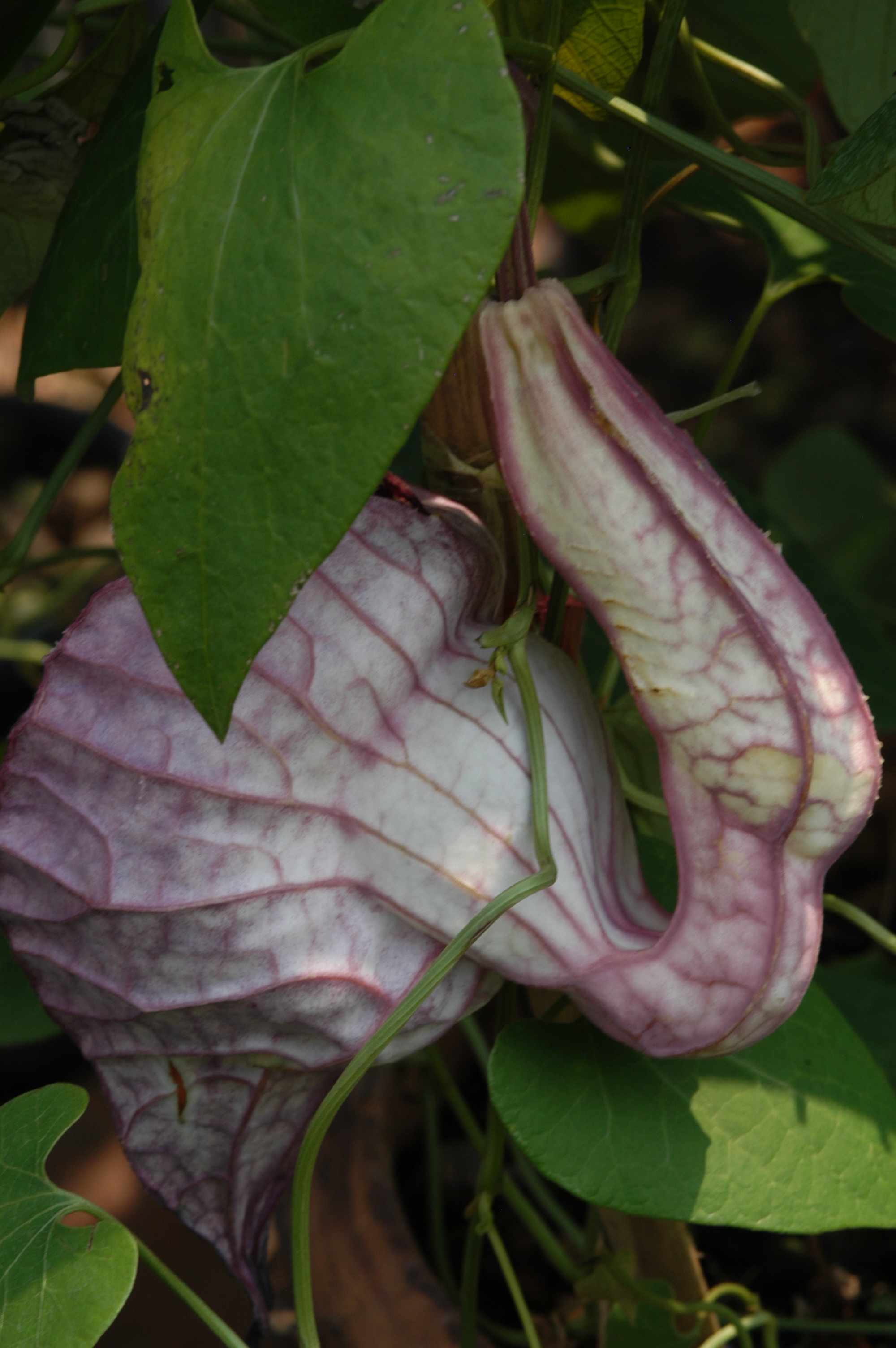 Aristolochia grandiflora